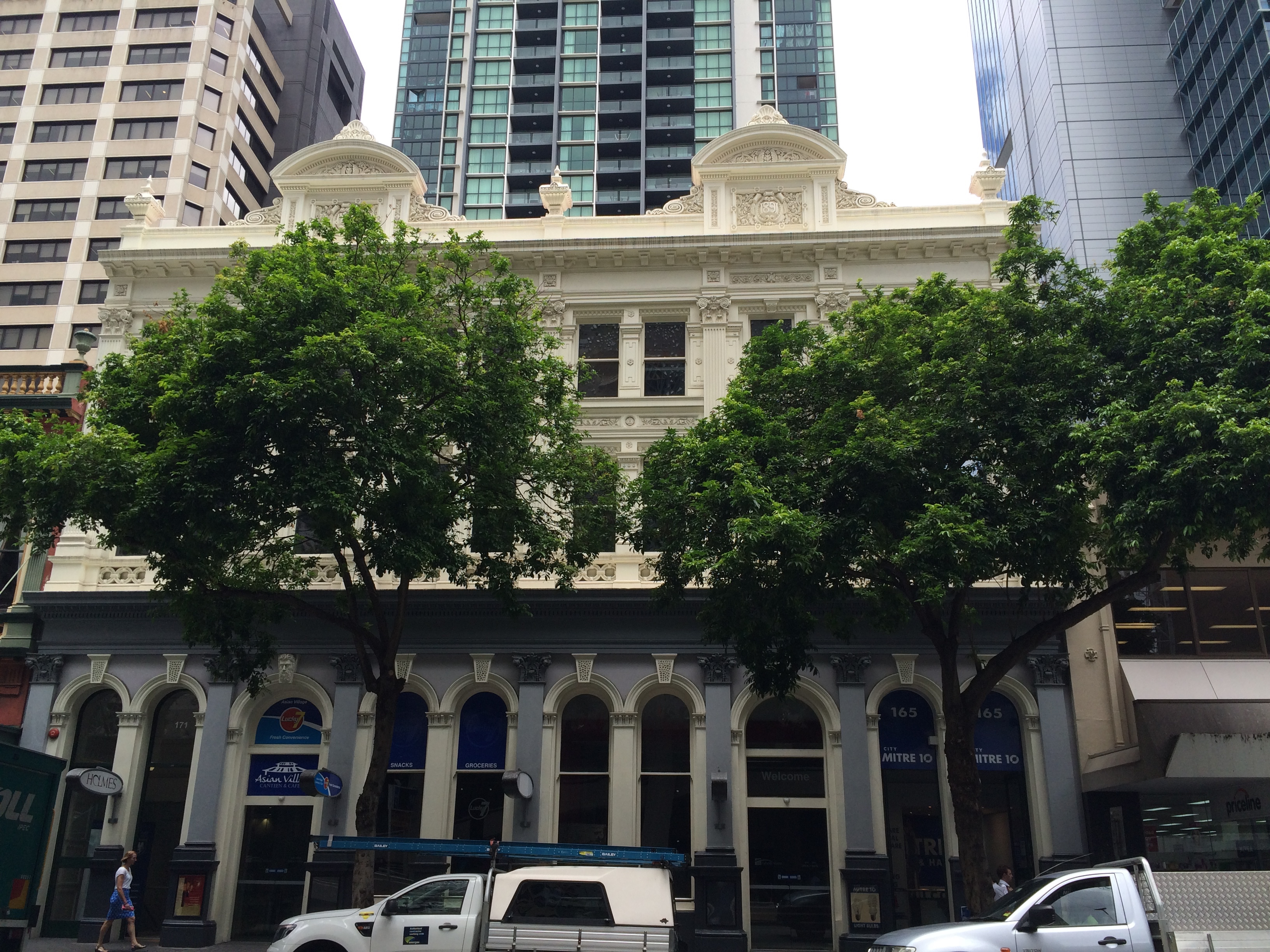 Heckelmanns Building exterior, 2015